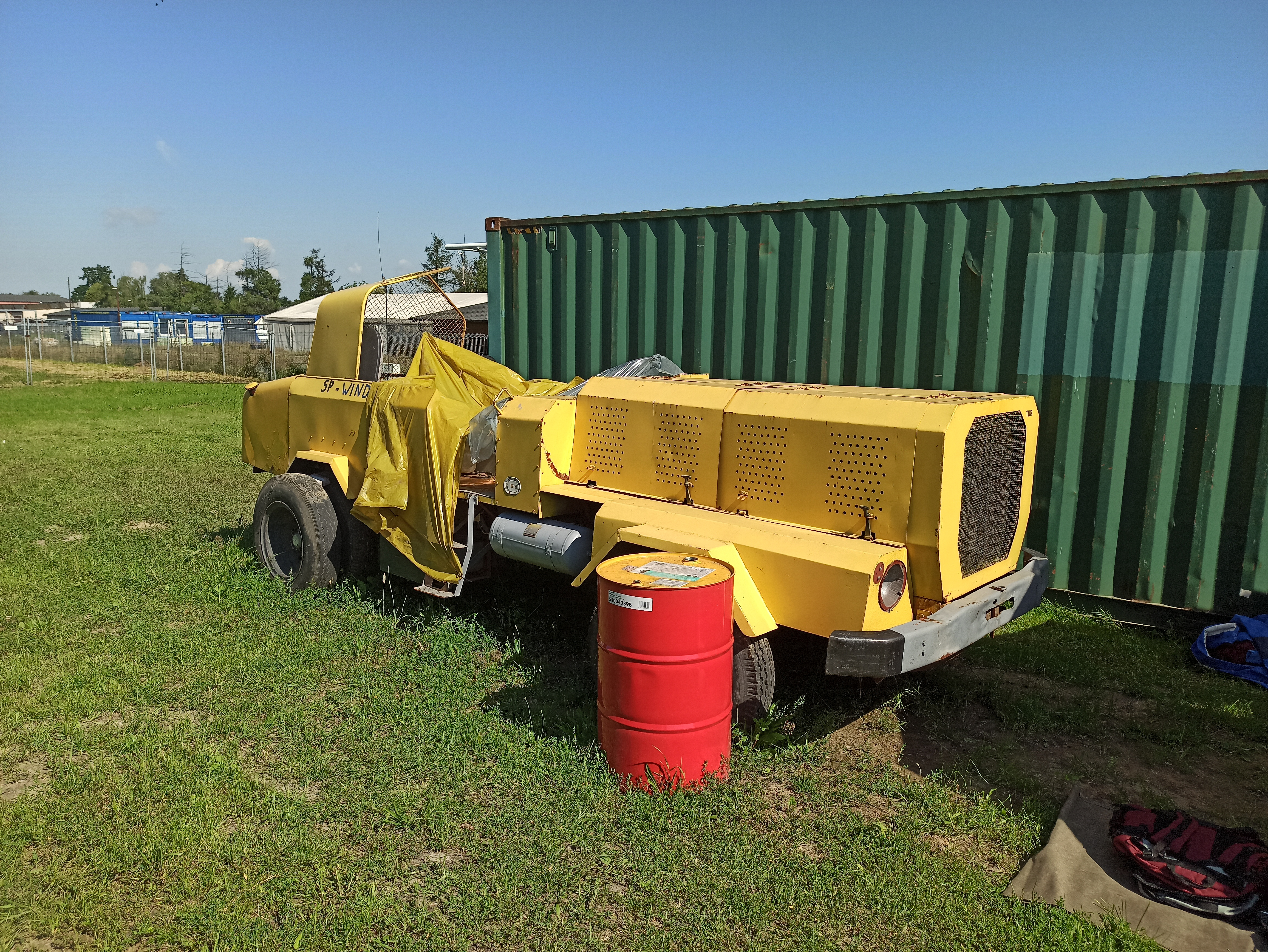 Airfield EPGL in Gliwice, Poland